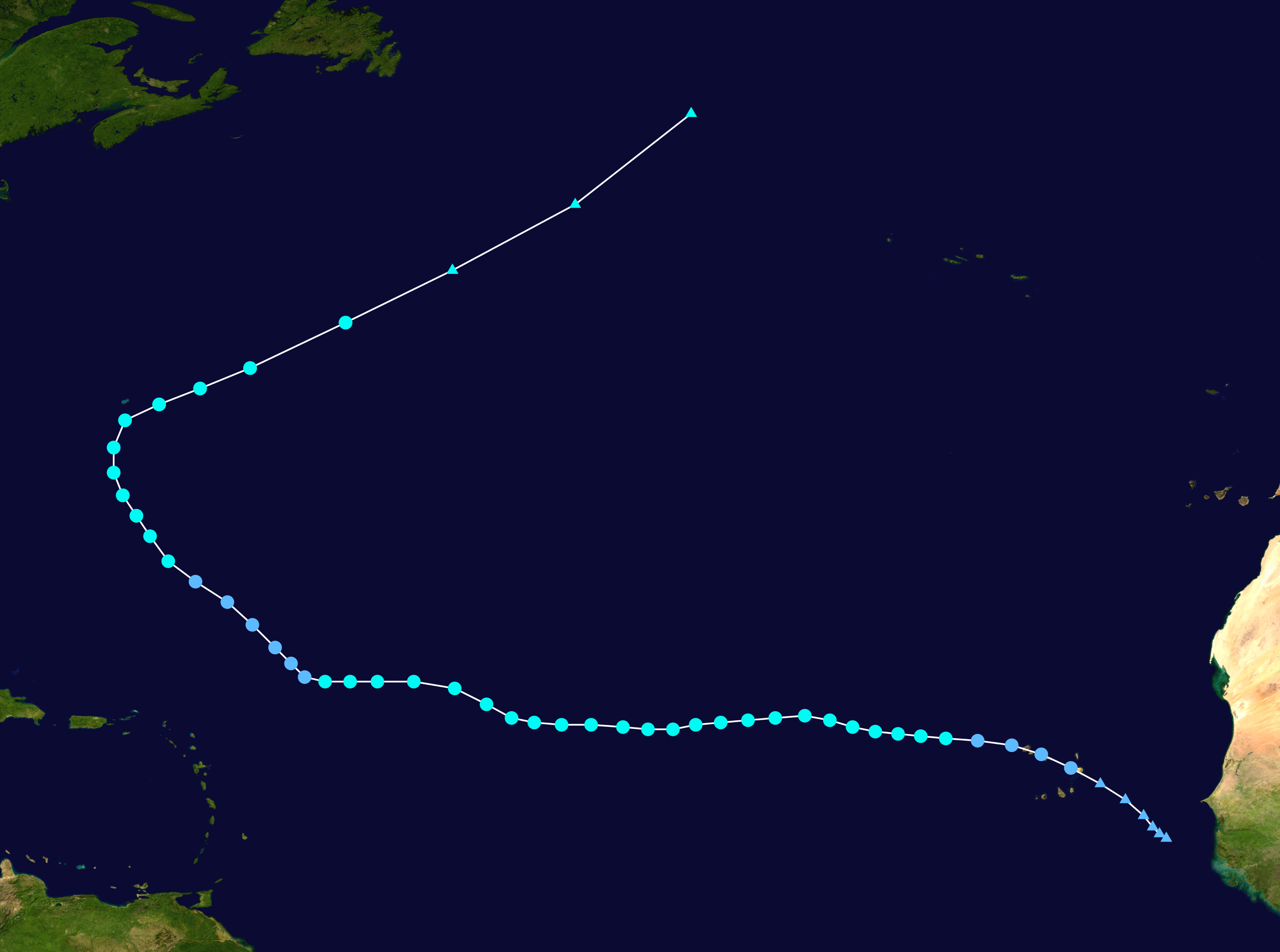 Track map of Tropical Storm Karl of the 2016 Atlantic hurricane season. The points show the location of the storm at 6-hour intervals. The colour represents the storm's maximum sustained wind speeds as classified in the Saffir–Simpson scale (see below), and the shape of the data points represent the nature of the storm, according to the legend below. Saffir–Simpson scale Tropical depression≤38 mph≤62 km/h Category 3111–129 mph178–208 km/h Tropical storm39–73 mph63–118 km/h Category 4130–156 mph209–251 km/h Category 174–95 mph119–153 km/h Category 5≥157 mph≥252 km/h Category 296–110 mph154–177 km/h Unknown Storm type Tropical cyclone Subtropical cyclone Extratropical cyclone / Remnant low / Tropical disturbance / Monsoon depression